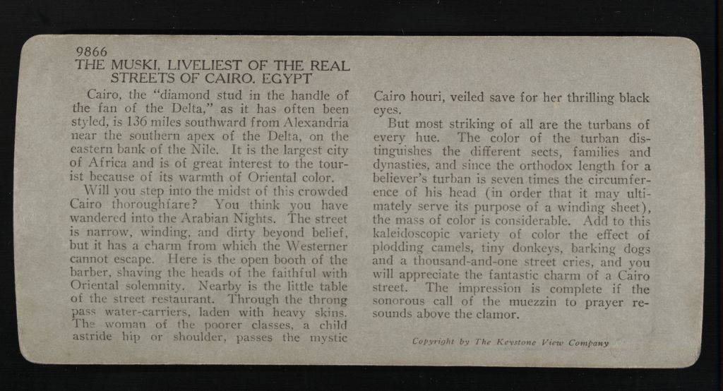 People walking in the Muski, a busy street surrounded by shops and business in Cairo Egypt